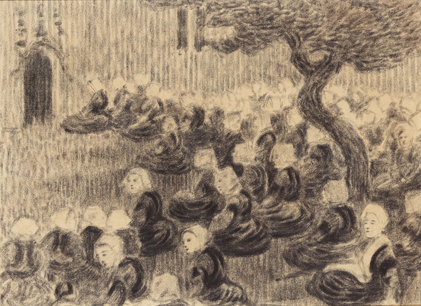 Breton Churchyard ca.1893 Licensing Artwork by Robert Bevan (1865-1925).